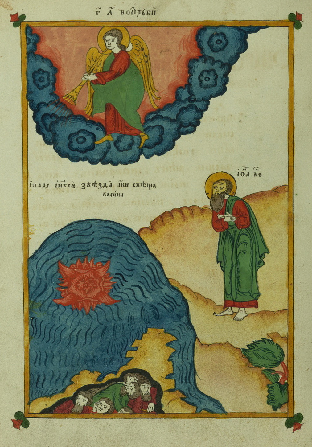 Walters Ms. W917 - Apocalypse with commentaries by Andrew of Caesarea This manuscript was made around 1800 by the “Old Believers,” a group of Russian Christians who dissented from the Russian Orthodox Church and were subsequently persecuted and excommunicated. Because their books were often confiscated and they were forbidden to use printing presses, they continued to write important works such as this one by hand. The manuscript contains the text of the New Testament book of Revelation along with a patristic commentary, which is accompanied by a series of seventy-one striking full-page miniatures.